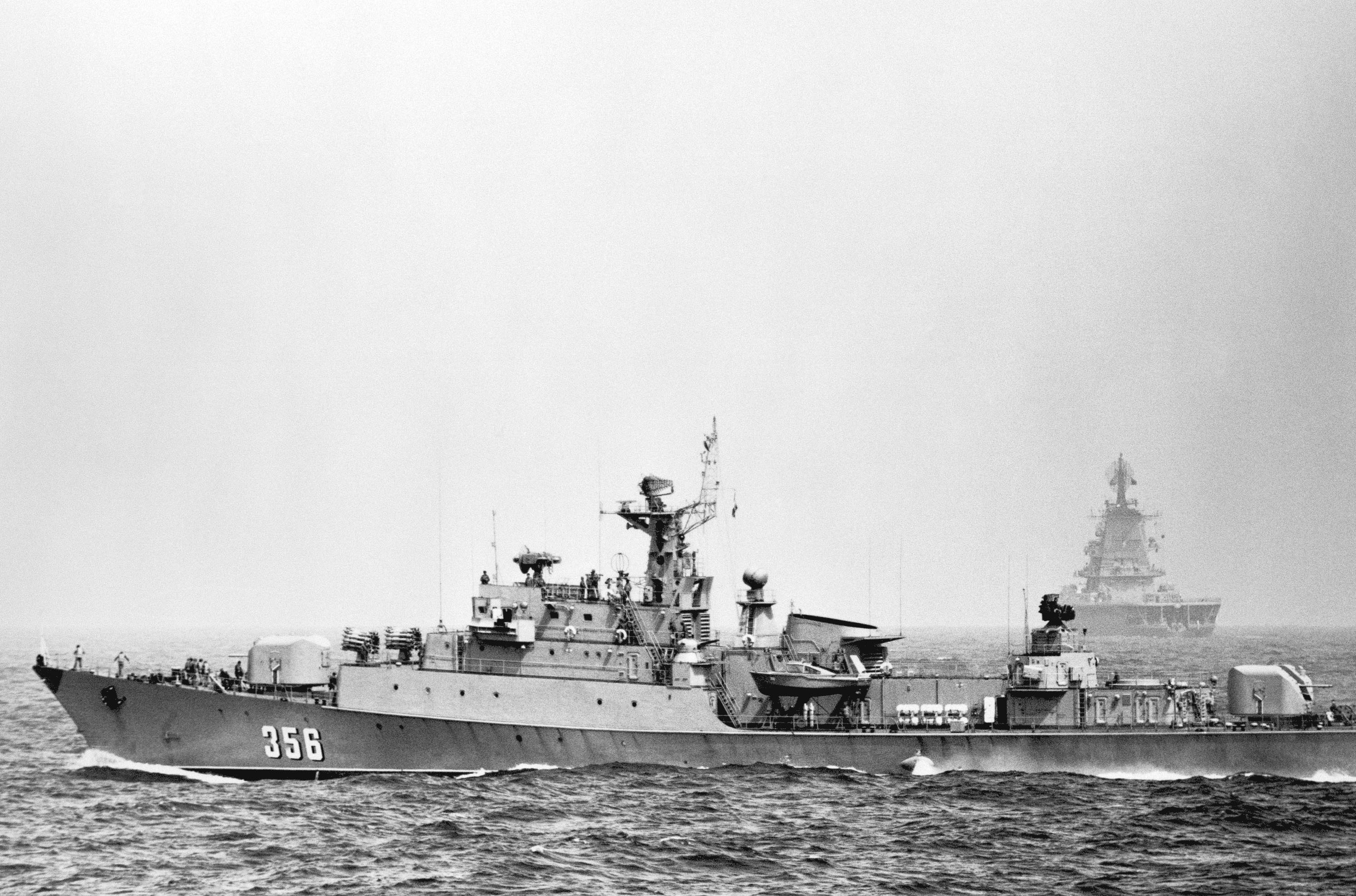 A port beam view of project 1159-T Cuban frigate 356 (former the Soviet guard ship SKR-471) underway.